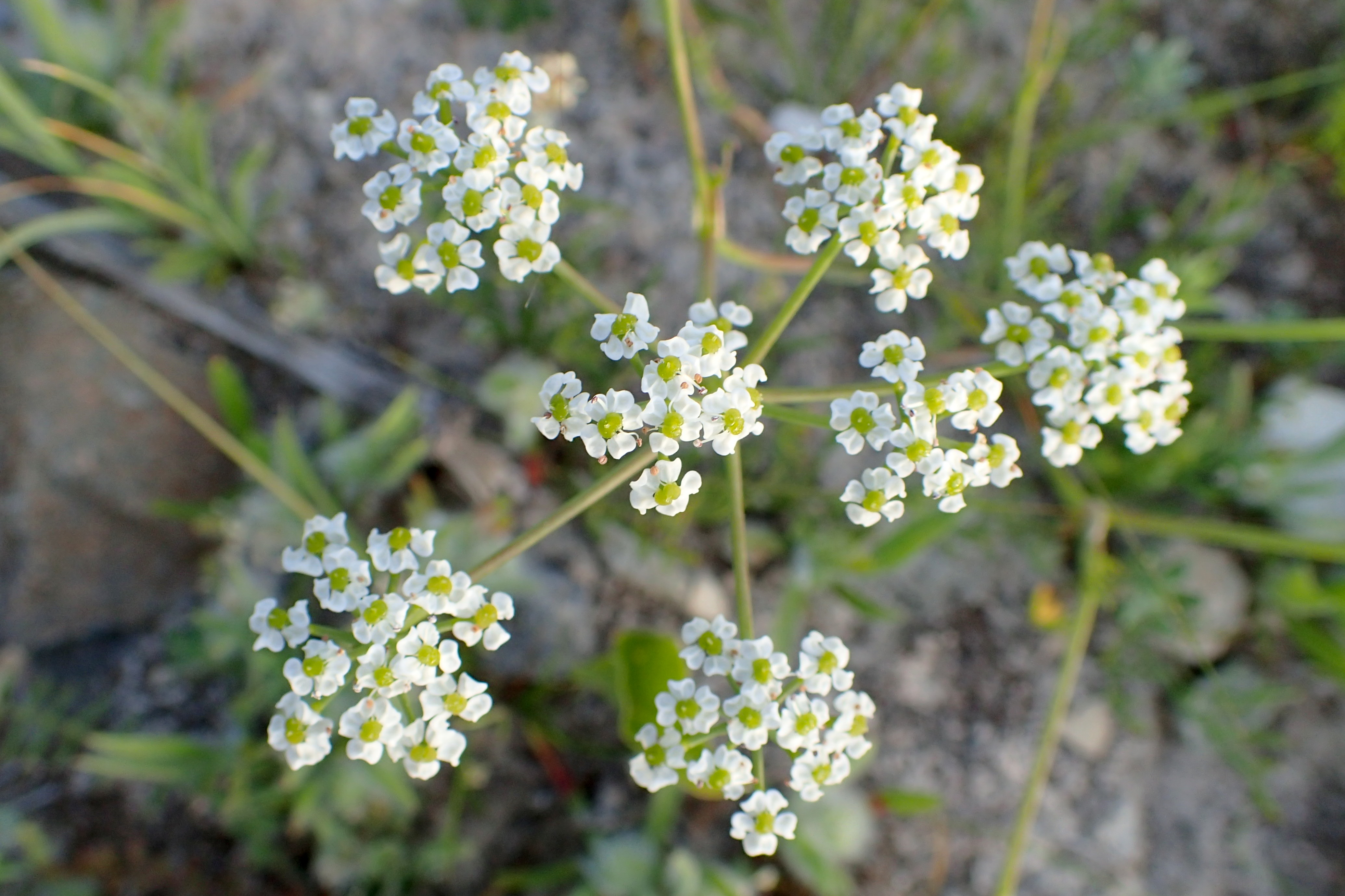 Bunium ferulaceum in Pissouri, Cyprus